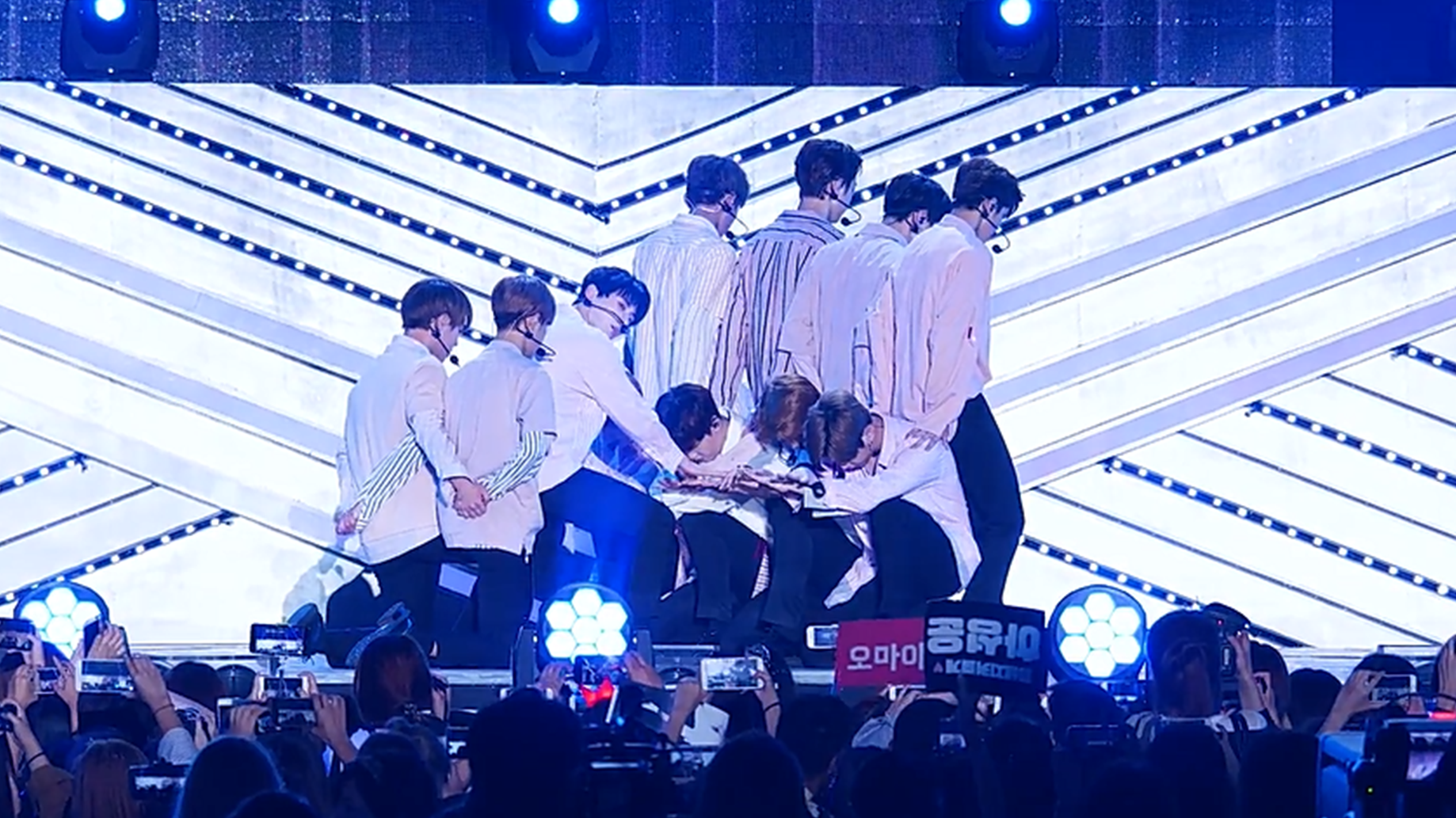 Wanna One performing "Energetic" at Incheon K-POP Concert on September 9, 2017.